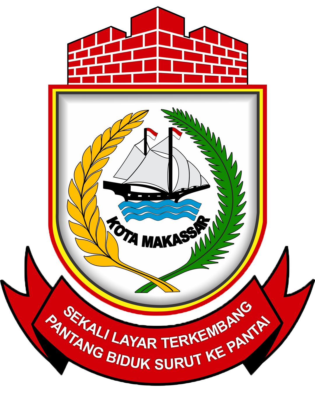 Lambang (Coat of Arms) of Kota (City) of Makassar, Provinsi Sulawesi Selatan (South Sulawesi Province), Indonesia